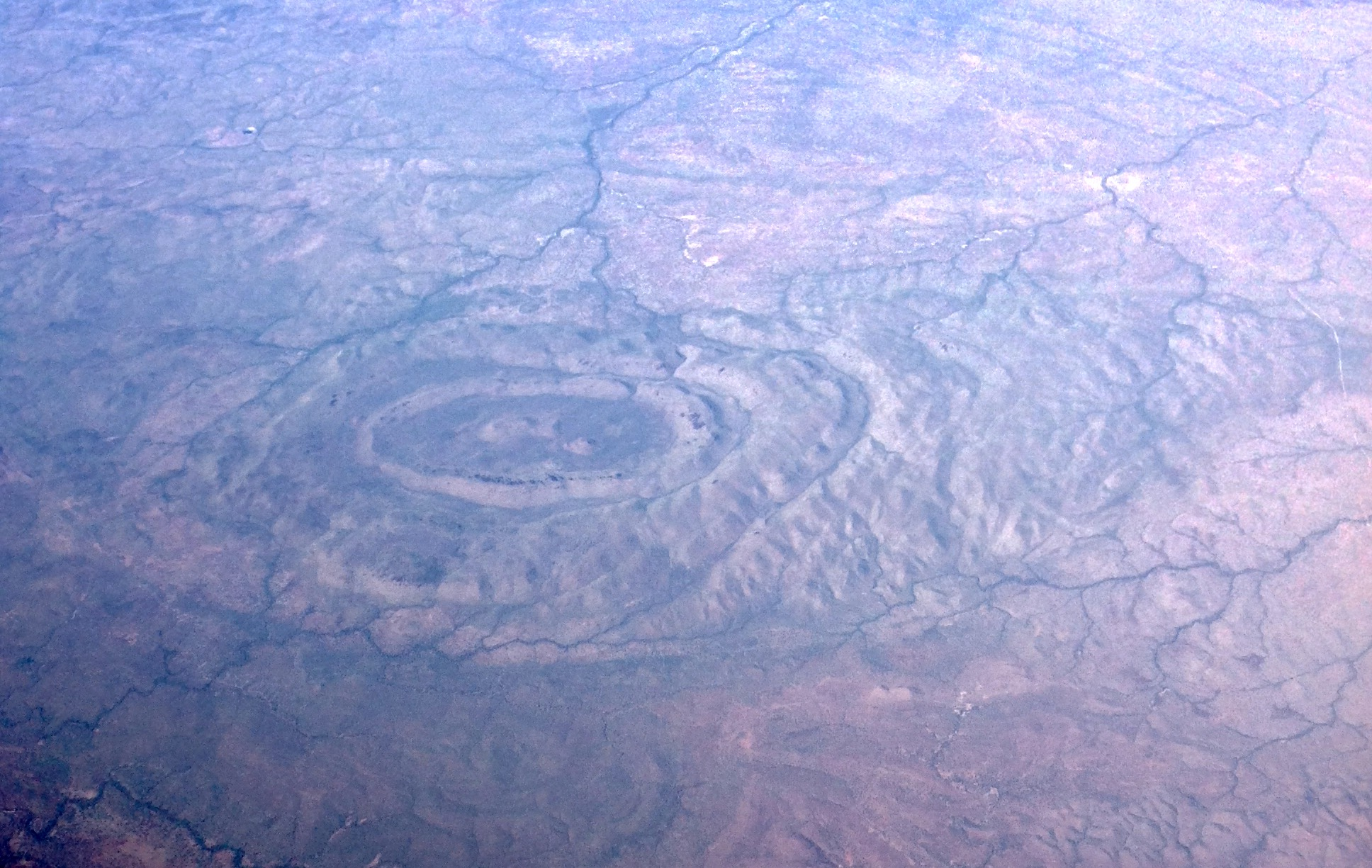 Kimberley region crater from the air